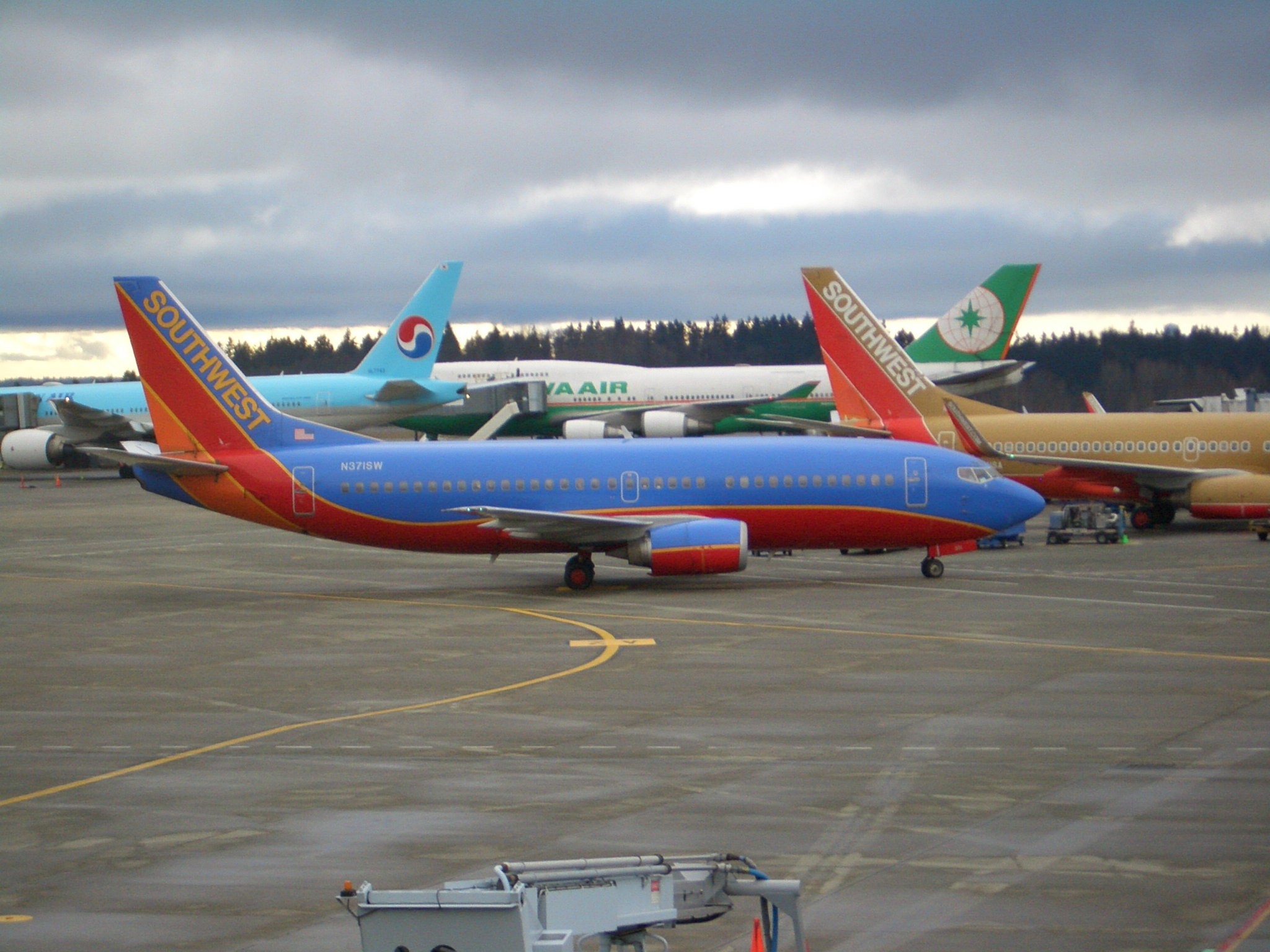 Airplanes in Seattle-Tacoma International Airport (SEA), seen from the main terminal. The planes belong to the Southwest Airlines, Eva Air, and a Korean airline